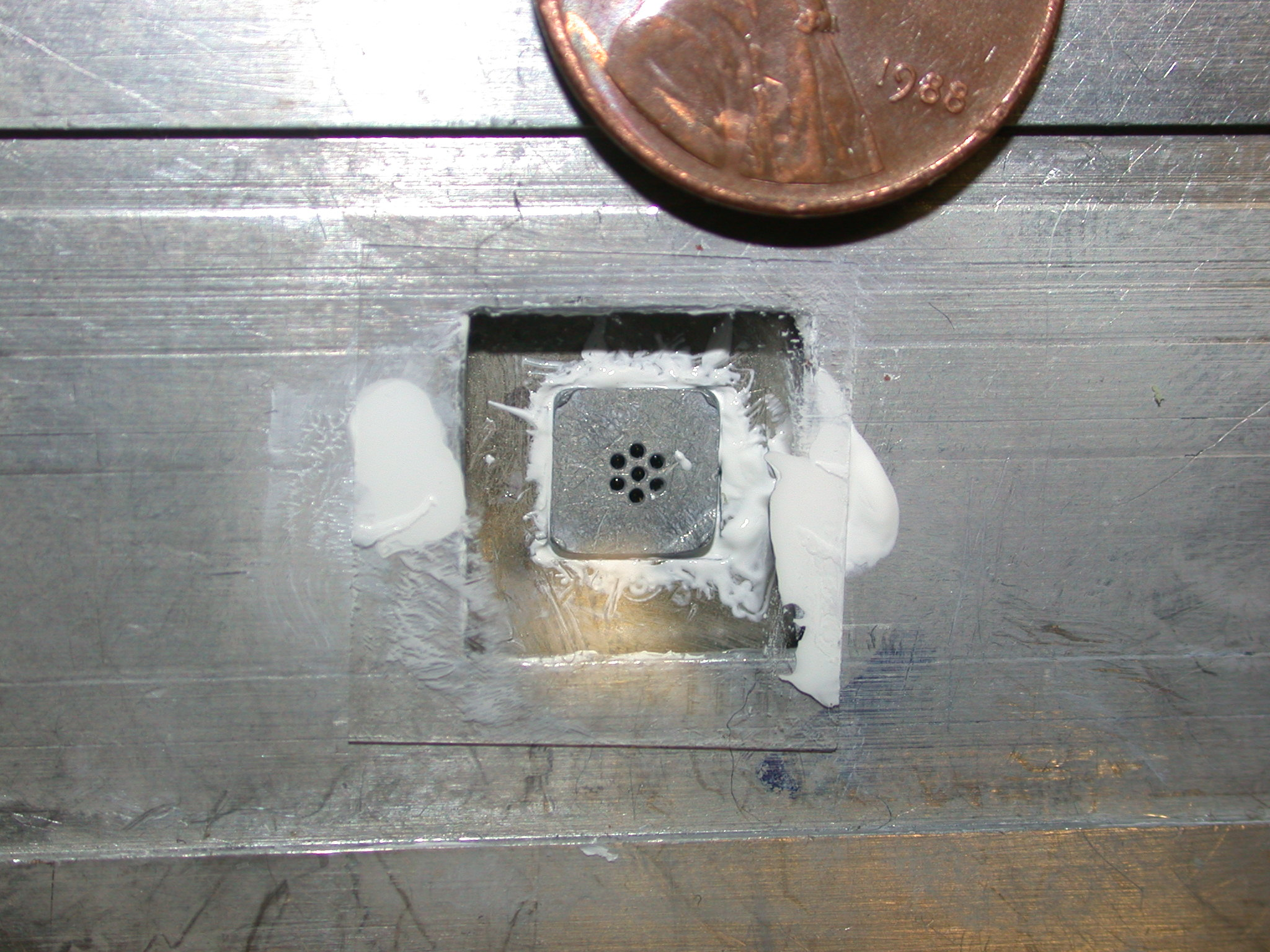 A closeup of the Clifton nanoliter osmometer sample holder (square with holes), covered by a glass coverslip and mounted on the Clifton nanoliter osmometer stage.